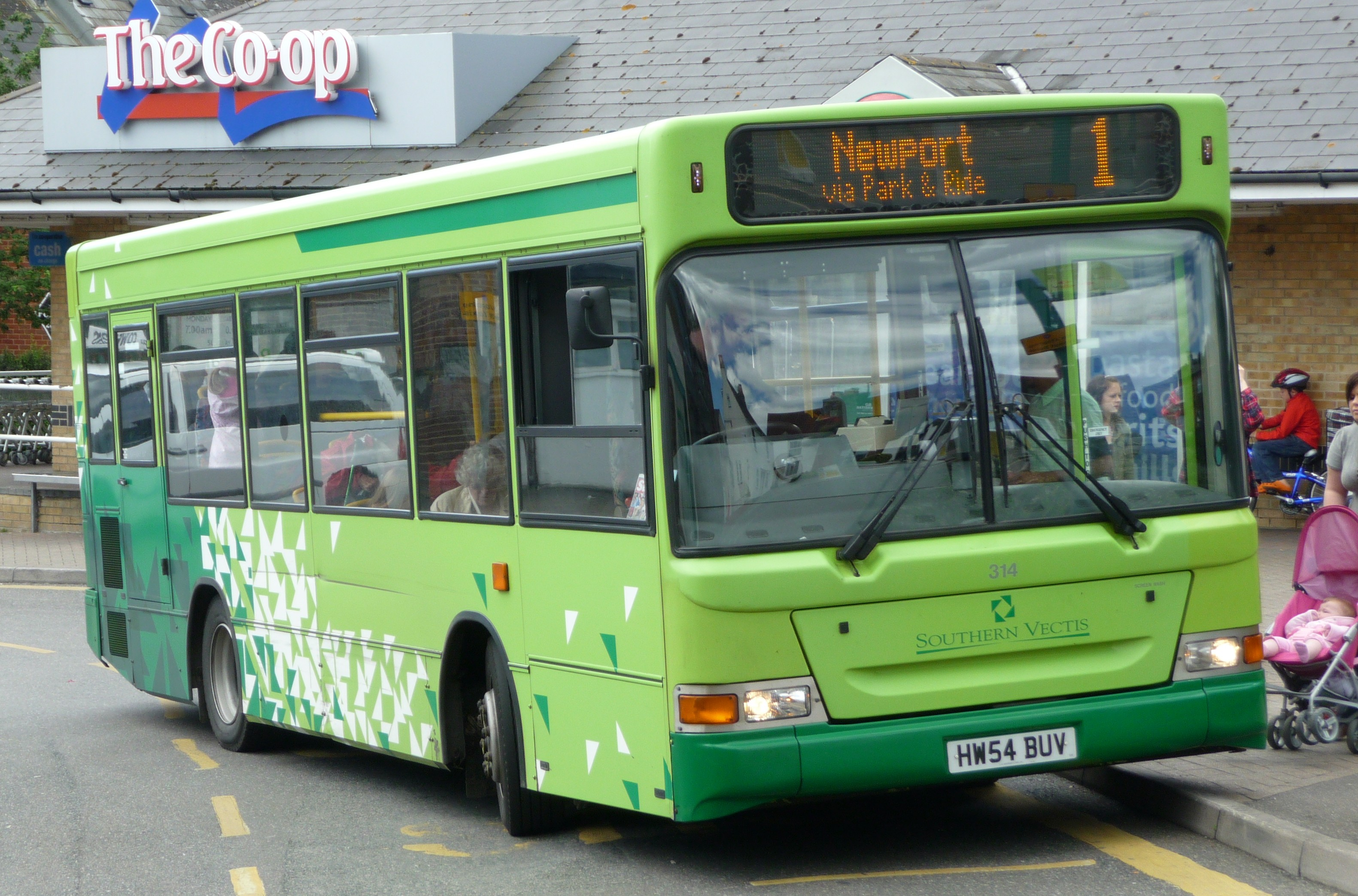 Southern Vectis 314 Wedge Rock (HW54 BUV), a Dennis Dart SLF/Plaxton Pointer 2 MPD, in Carvel Lane, Cowes, Isle of Wight, at the Co-op stop, on route 1.